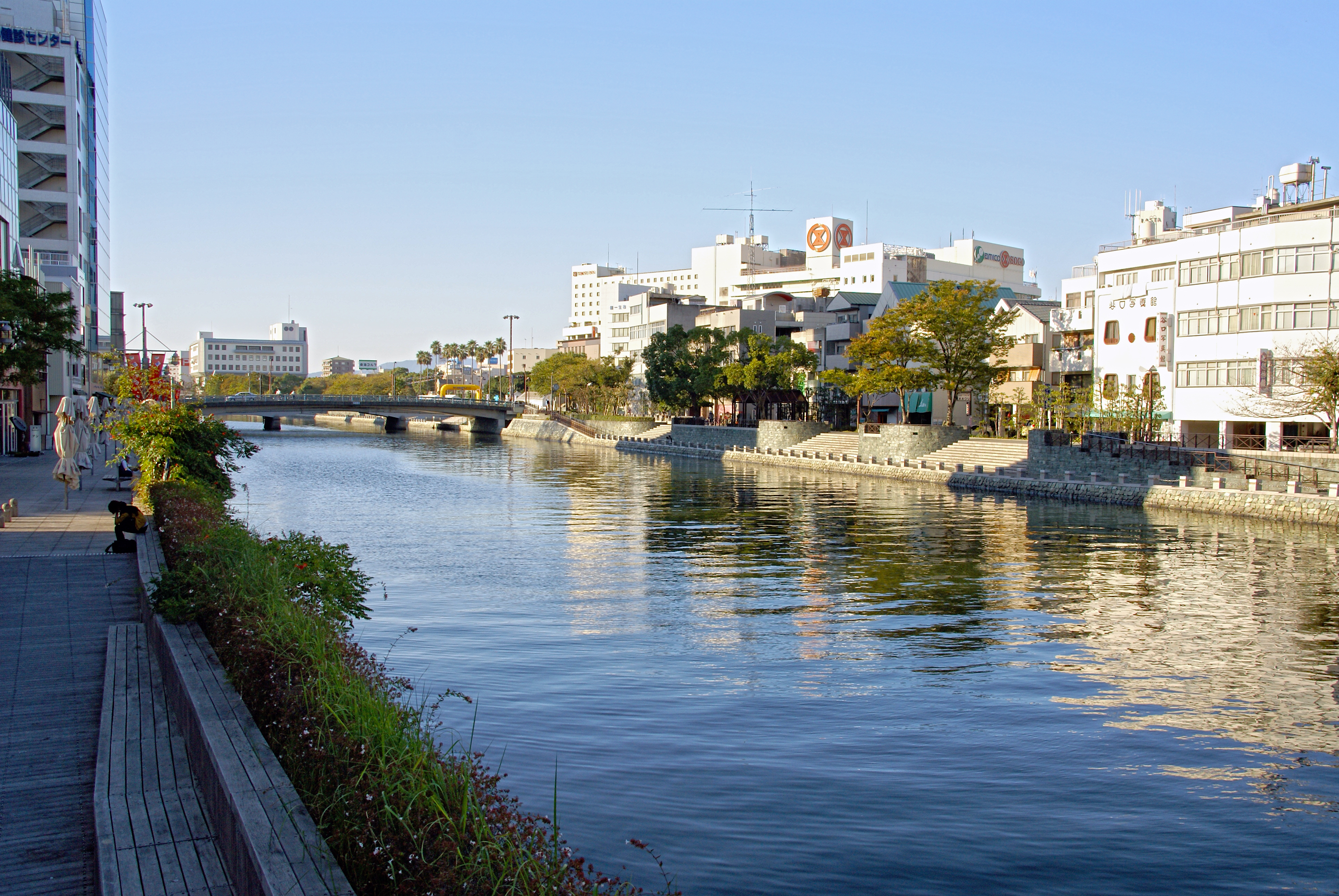 Shinmachi Boardwalk in Tokushima, Tokushima prefecture, Japan